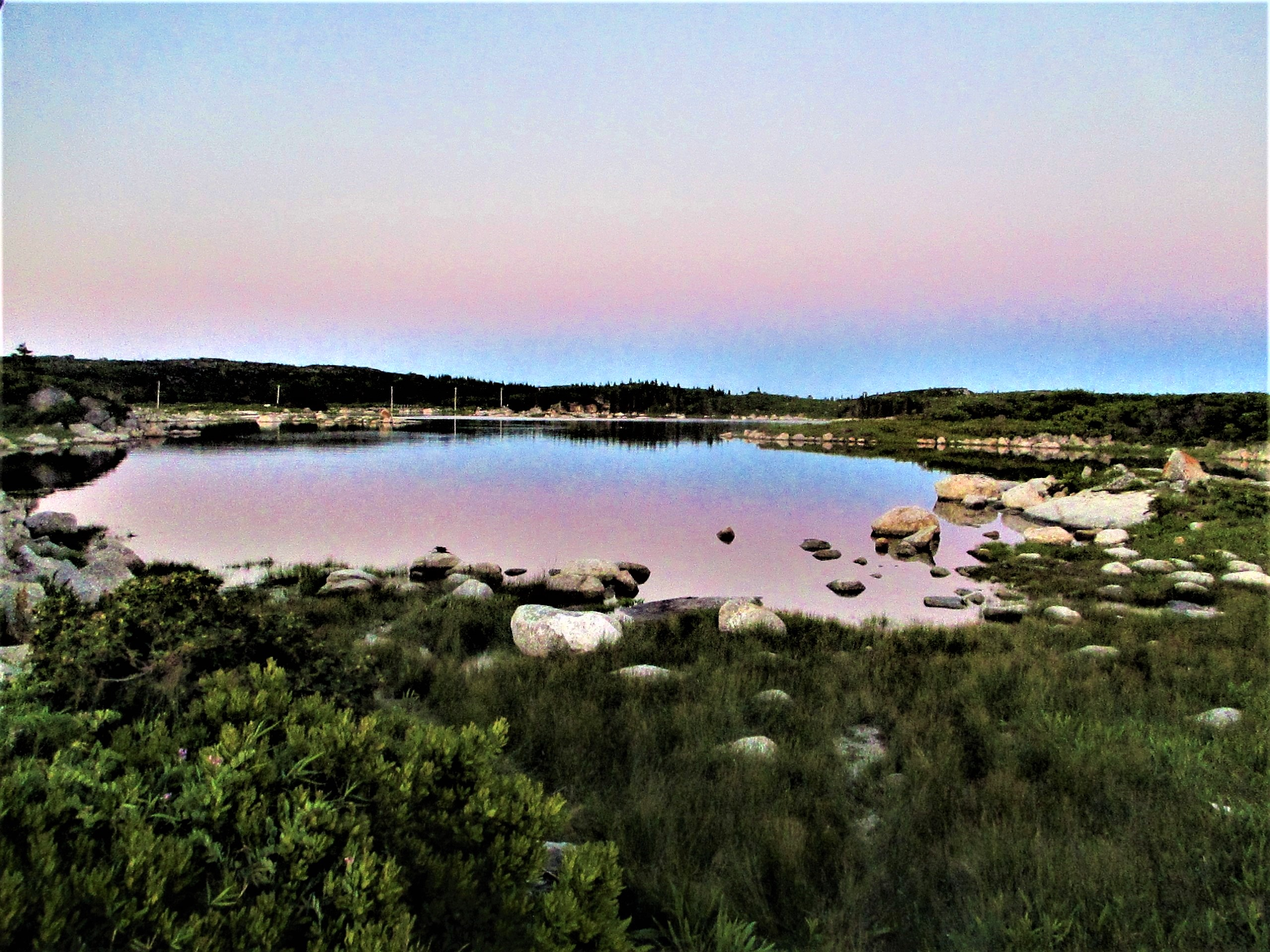 Peggys Cove Preservation Area- Granite Boulders-Nova Scotia